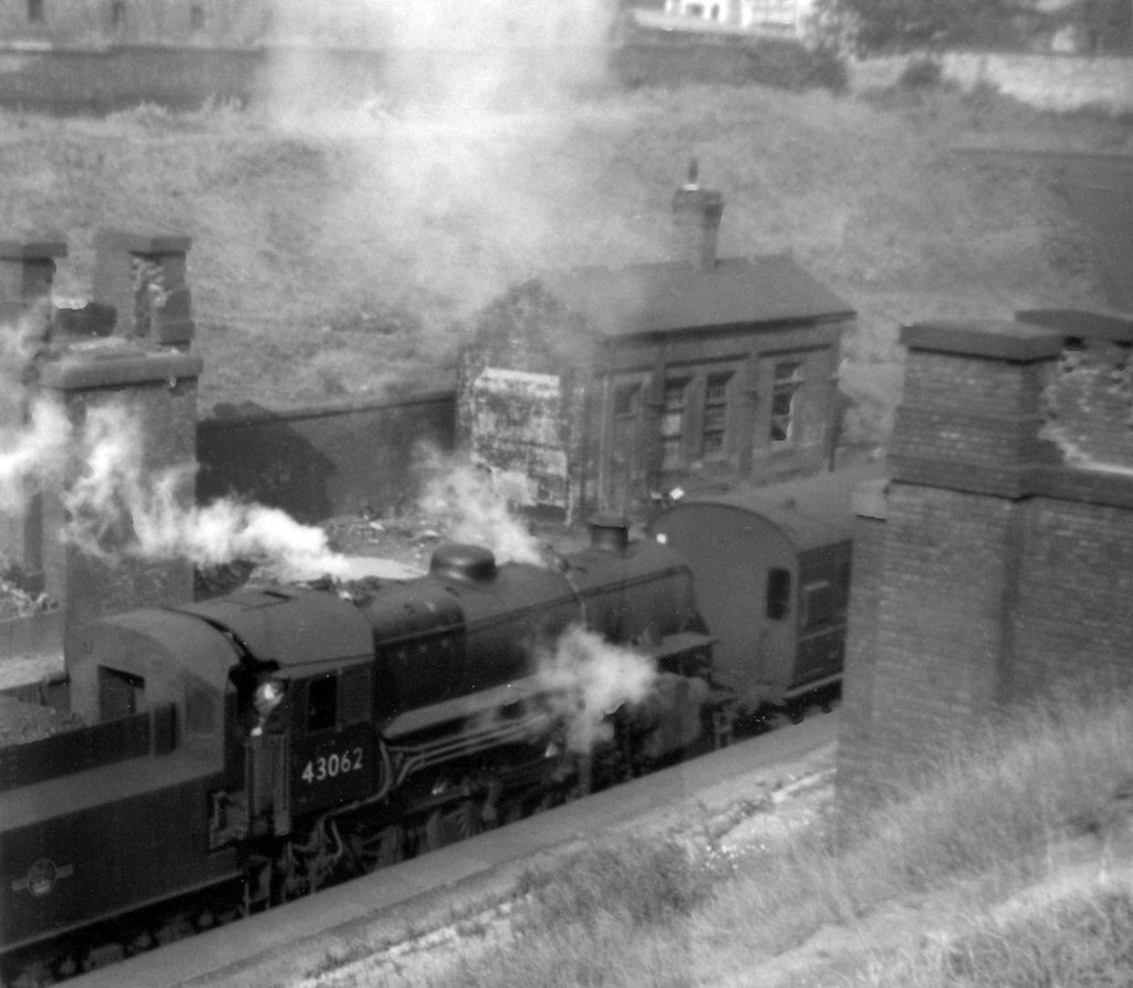 Carrington Station, 1963 Carrington Station stood in a cutting in the sandstone between Mansfield Road and Sherwood Rise Tunnels on the Great Central line from Nottingham Victoria, but it was only open to passengers from 1899-1928 (trams were a more convenient way to and from the city). The cutting was filled in after the line closed in 1968 and is now the site of a business park and the Nottingham branch of the Open University. Carrington was a good place to truant to when confronted with Latin and swimming on a Monday morning. The platforms were approached by a ramp from street level, and the northbound (far) platform, on which a disused waiting room remained, was reached by the lattice footbridge whose blue brick abutments were all that remained. H G Ivatt LMS Class 4 2-6-0 43062, running tender first on a train from Derby Friargate, is just restarting after being checked at the colour-light signal next to the signal box next to the north portal of Mansfield Road Tunnel (out of picture to the left).